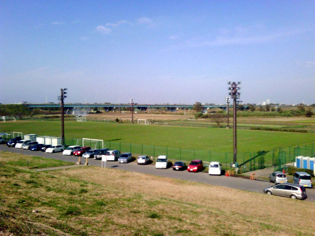 NTT SHIKI Ground